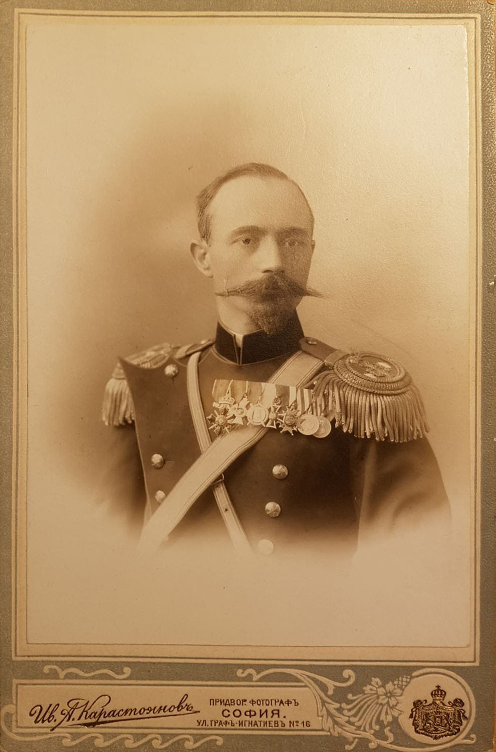 Lieutenant colonel Petar Variklechkov as comander of battalion from 4th Artillery Regiment of the Bulgairan Army (Sofia, December 1905)